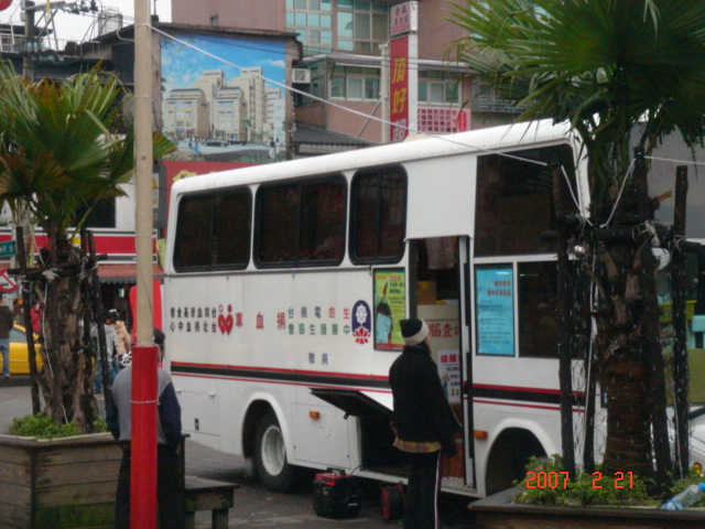 Blood donation bus of Taiwan Blood Services Foundation, stopped in front of TRA Rueifang Station.